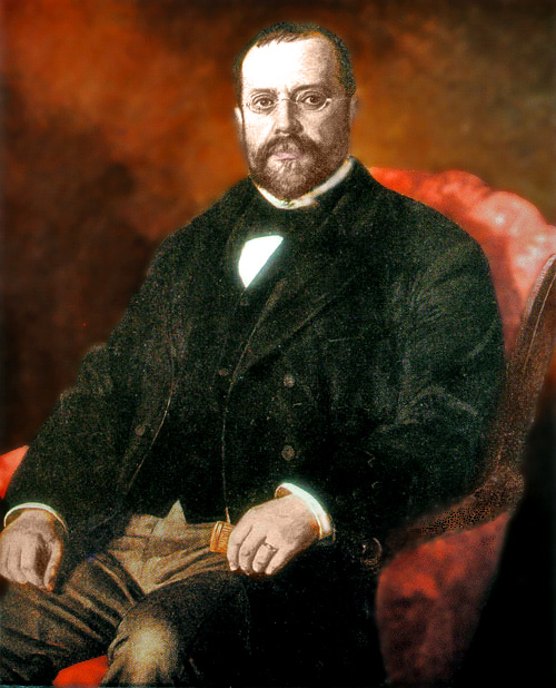 Miguel Antonio Caro, President of Colombia from 1894 to 1898.